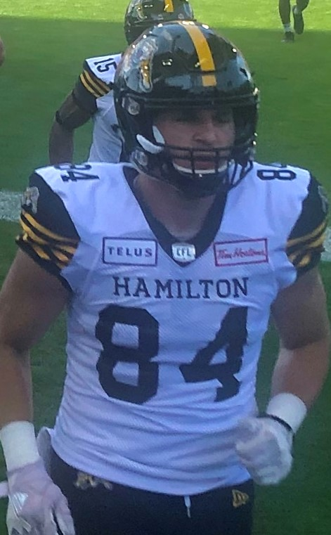 Nikola Kalinic, fullback and receiver for the Hamilton Tiger-Cats.